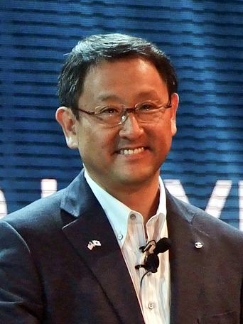 Akio Toyoda, President of the Toyota Motor Corporation, and Mark Templin, Executive Vice President of the Lexus International, attended the "Lexus GS Launch Event" in Monterey County, California State on August 18, 2011.